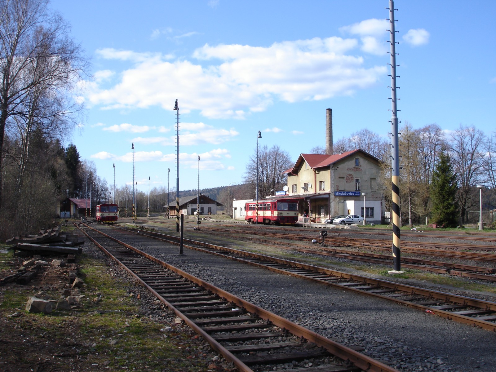 Station Mikulášovice dolní n., Czech Republic